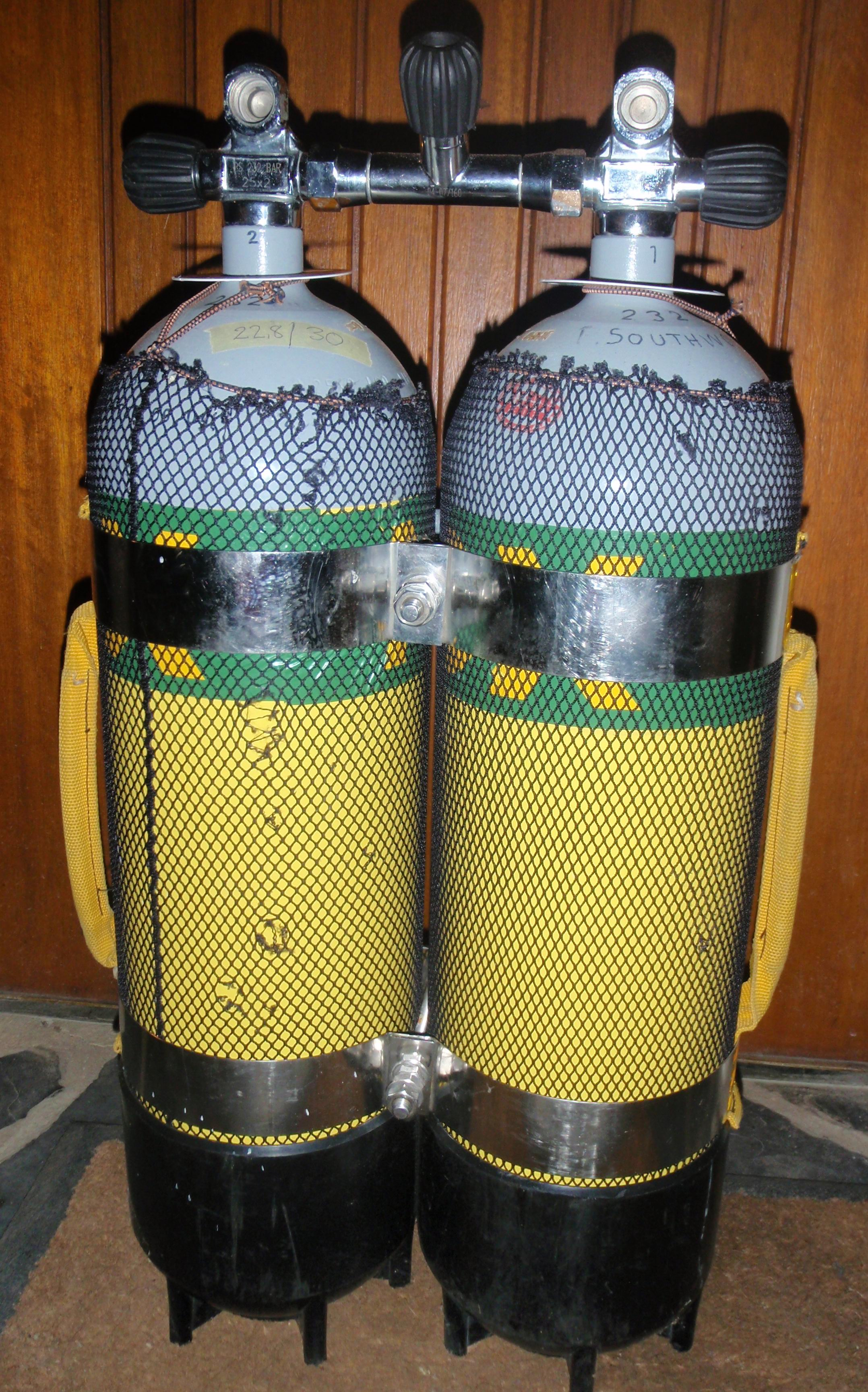 Twin 12l steel cylinders arrembled as an isolation manifolded set showing manifold, cylinder bands, boots, nets and soft (webbing) side handles. The nitrox labels are partly obscured by the upper bands.